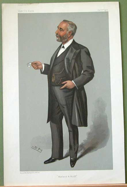 Men of the Day No.0864: Caricature of The Rt Hon WJ Pirrie PC LLD. Caption reads: "Harland and Wolff"